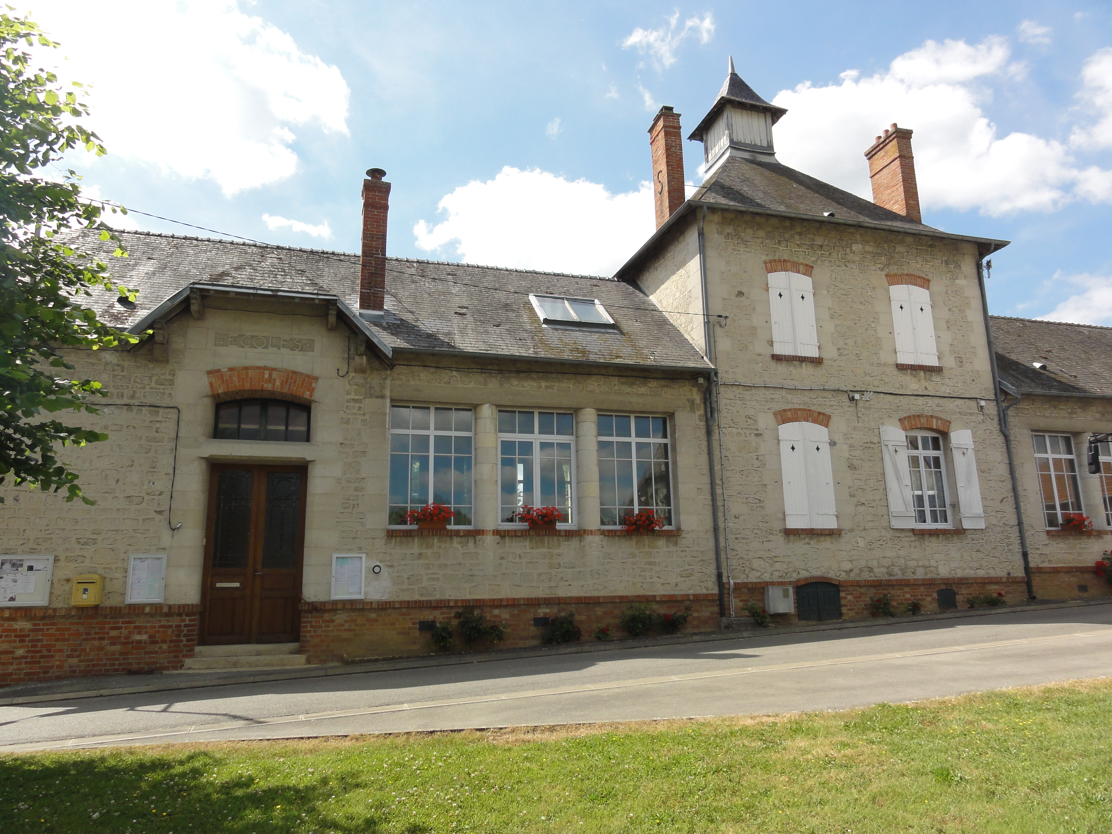 Nanteuil-la-Fosse (Aisne) mairie-école